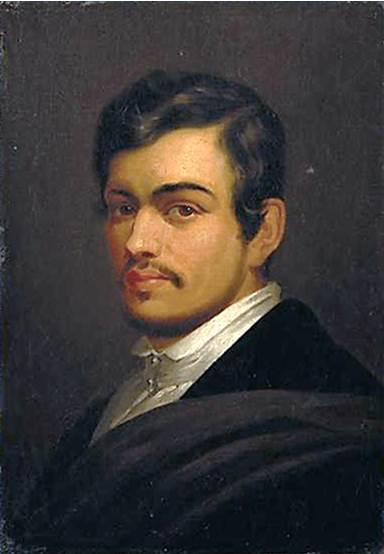 Self portrait of Portguese Painter João António Correia (improved color)